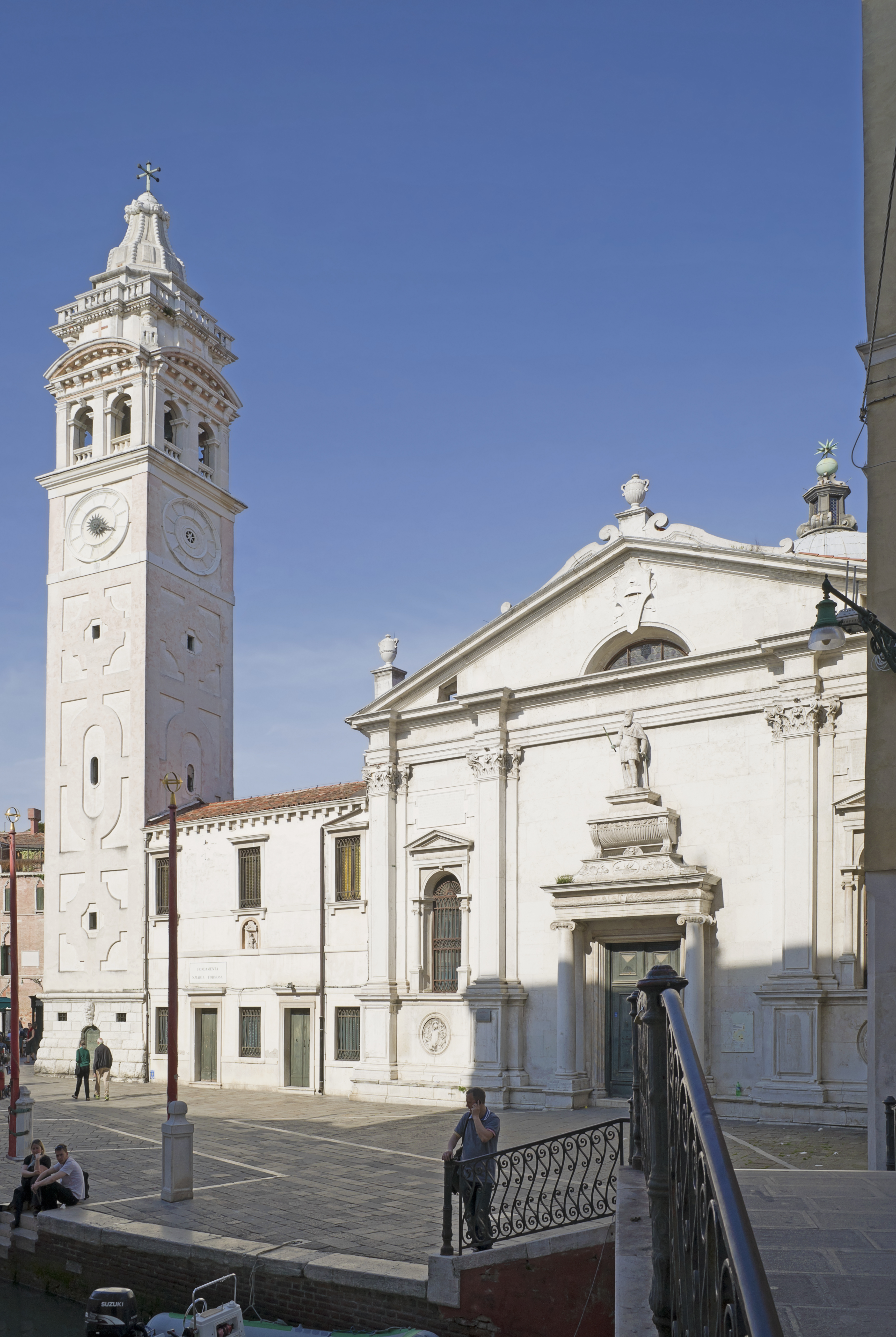 Church of Santa Maria Formosa West facade and bell tower Venice.